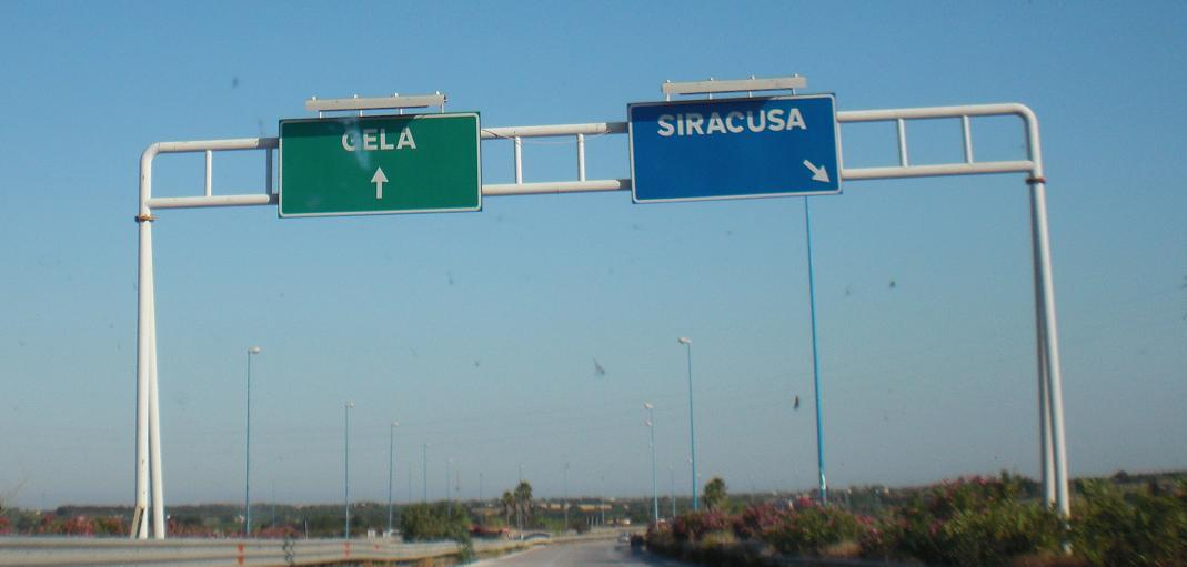 Italian Motorway Sign A18